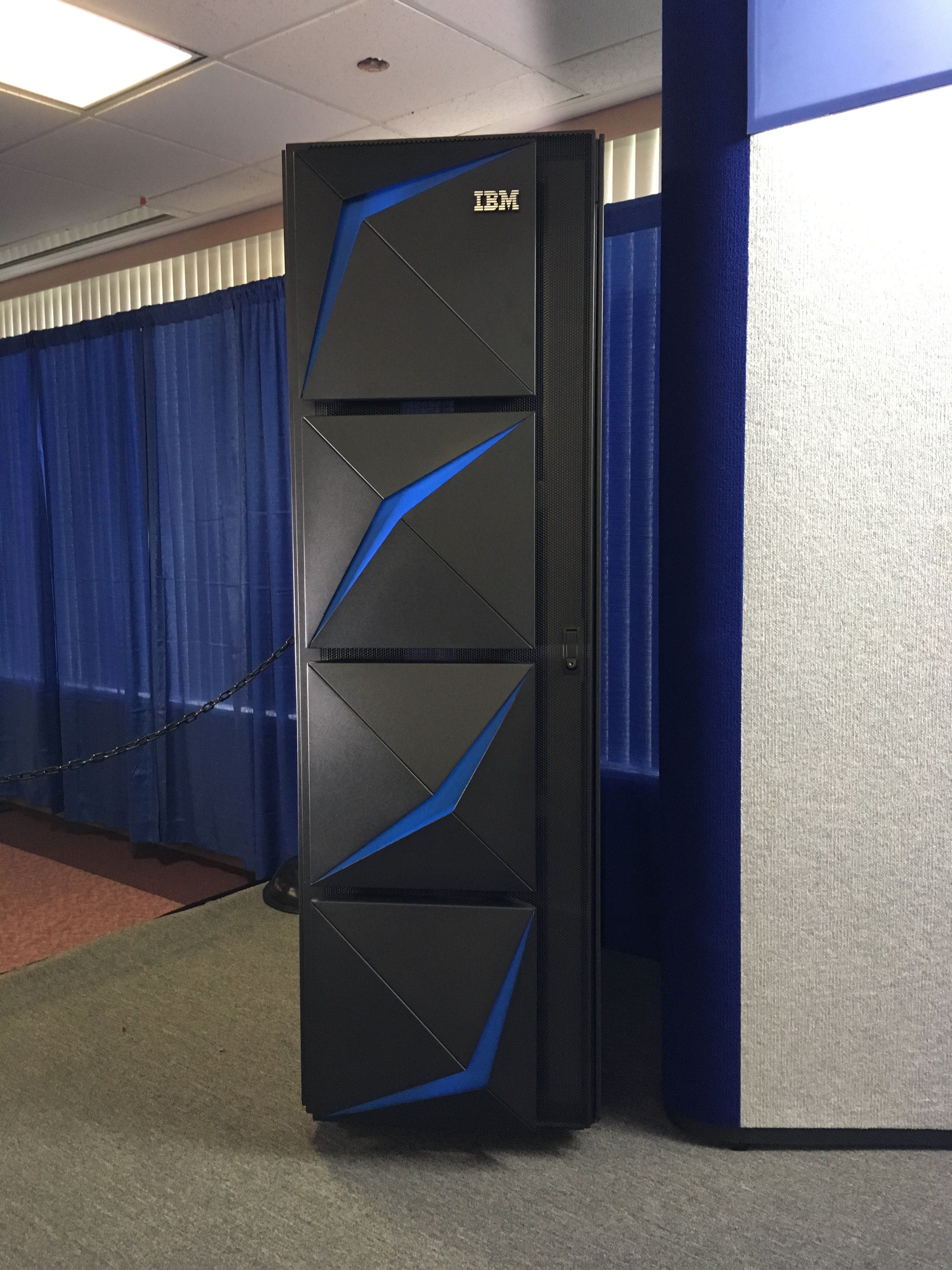 An IBM Z15 mainframe, in a single 19" frame. This is the smallest configuration, as there can be up to 4 total frames.